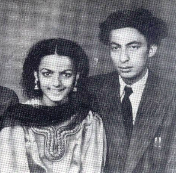 Khadija Mastoor with her Husband Malik Zaheer-ud-Deen Babar Awan